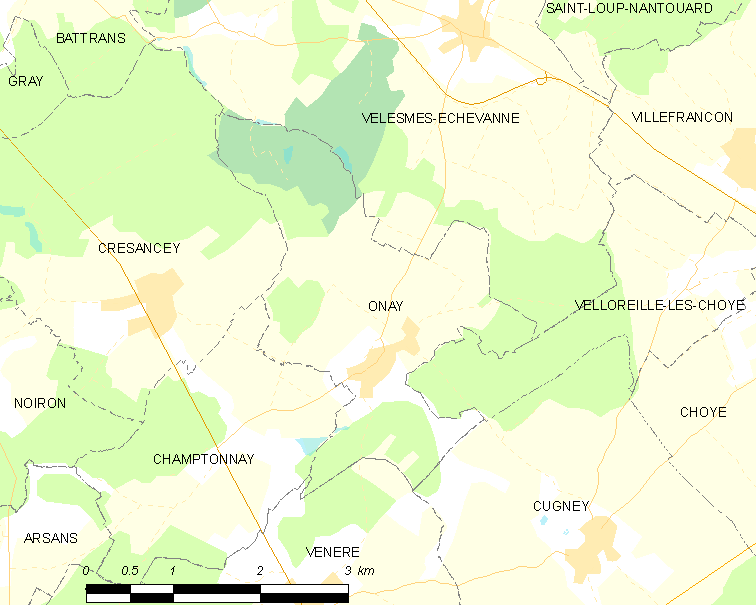 Map of French municipality